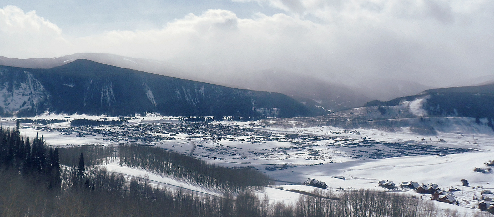 A view of the town of Crested Butte, Colorado as seen from a chairlift at Crested Butte Mountain Resort.